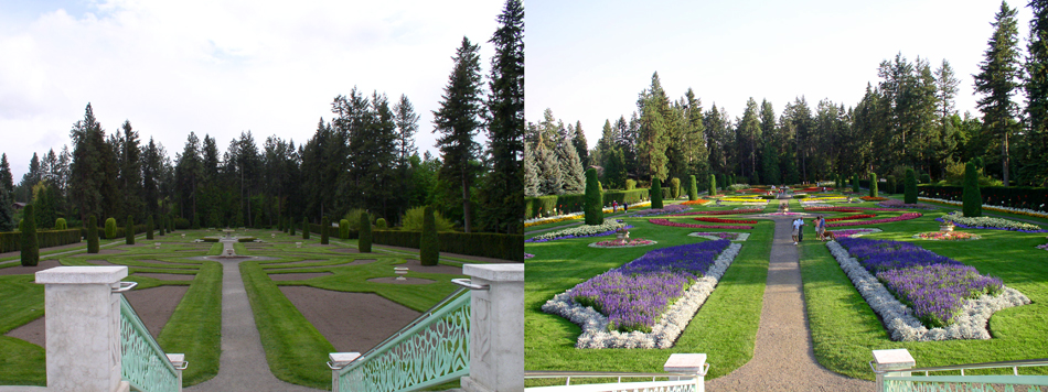 Picture of the Duncan Garden before (May 2003) and after (August 2003) the flowers were planted. Author, JDubman.